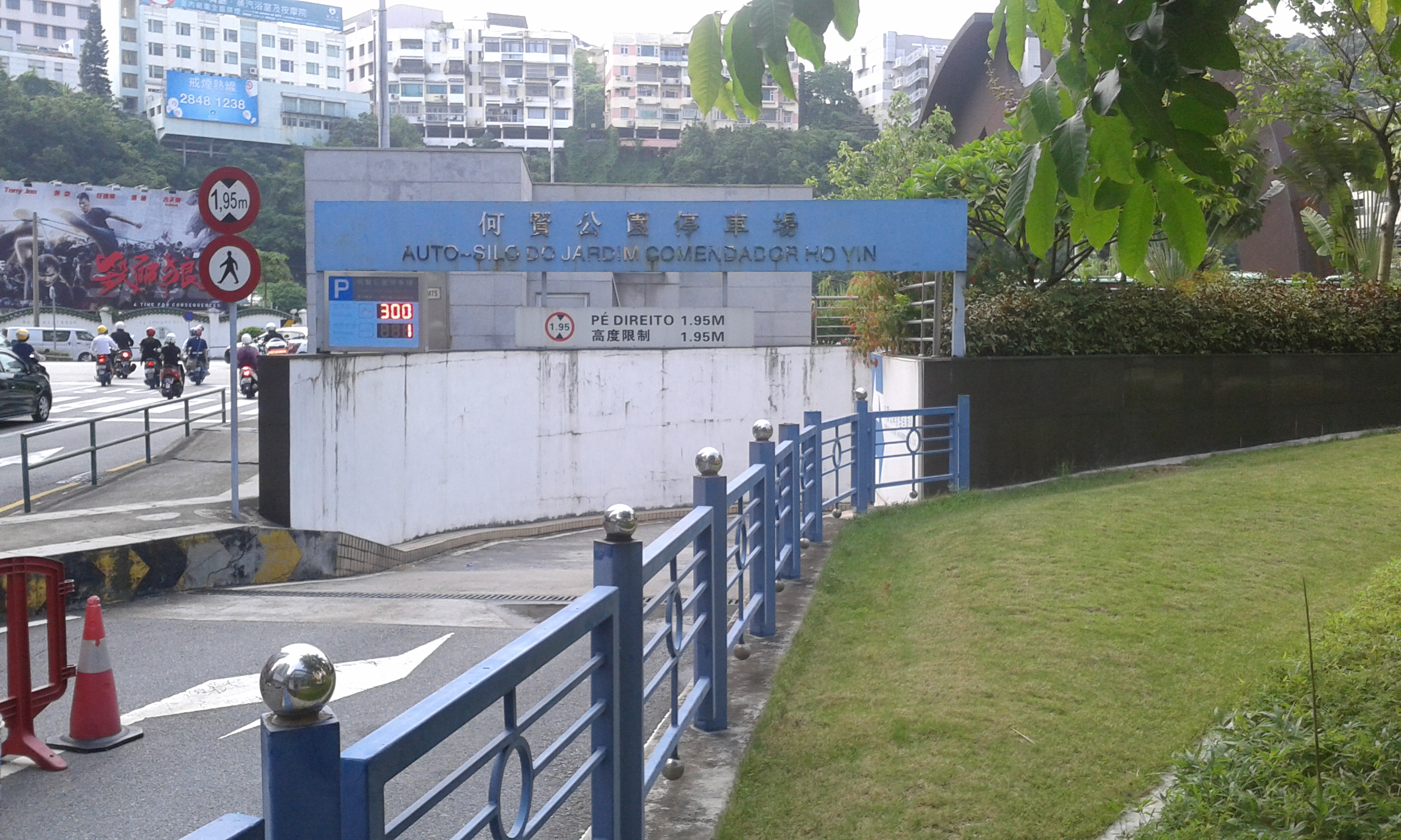 Car Parking in Jardim Comendador Ho Yin, Macau